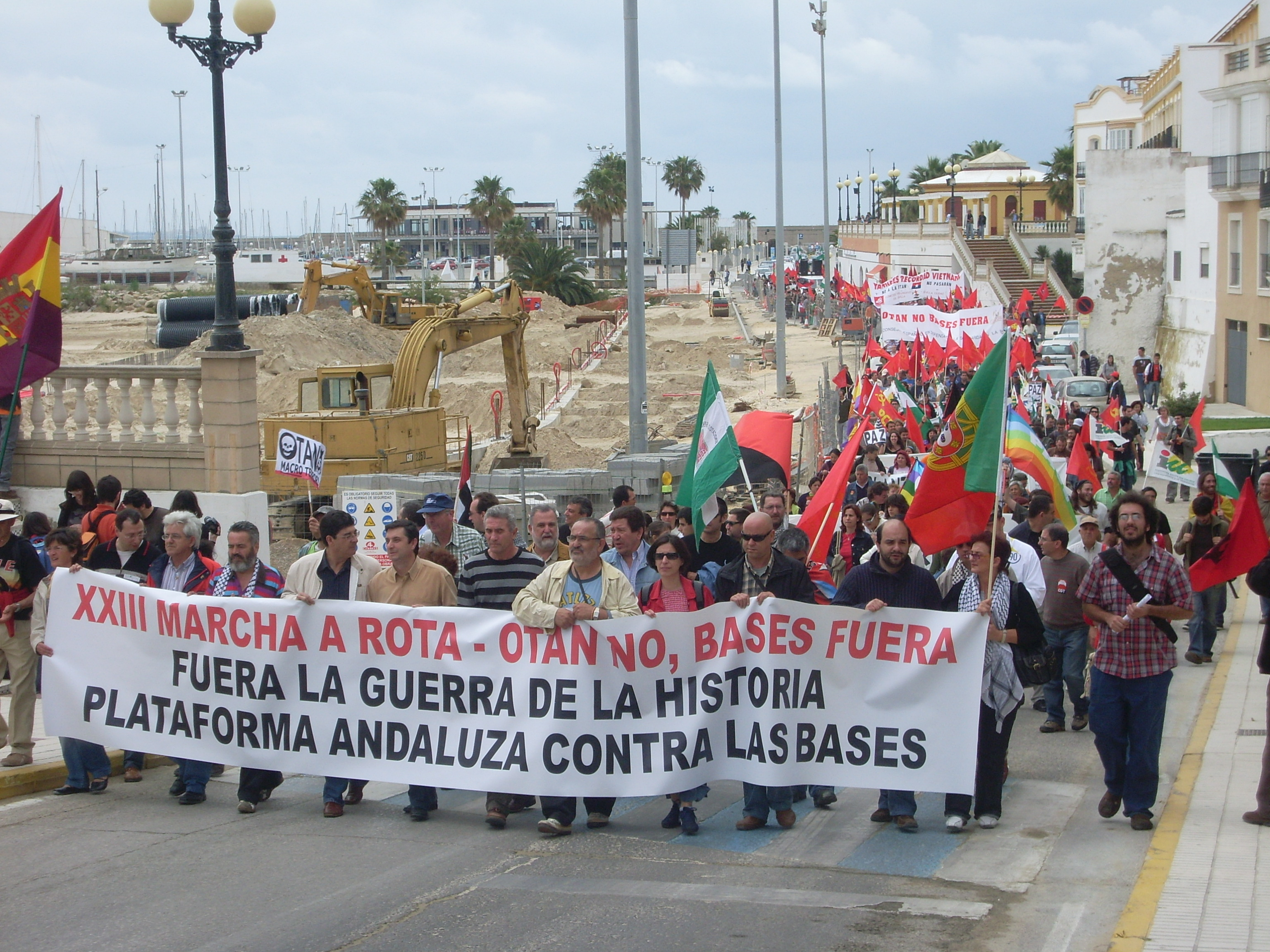 Demonstration against American air bases